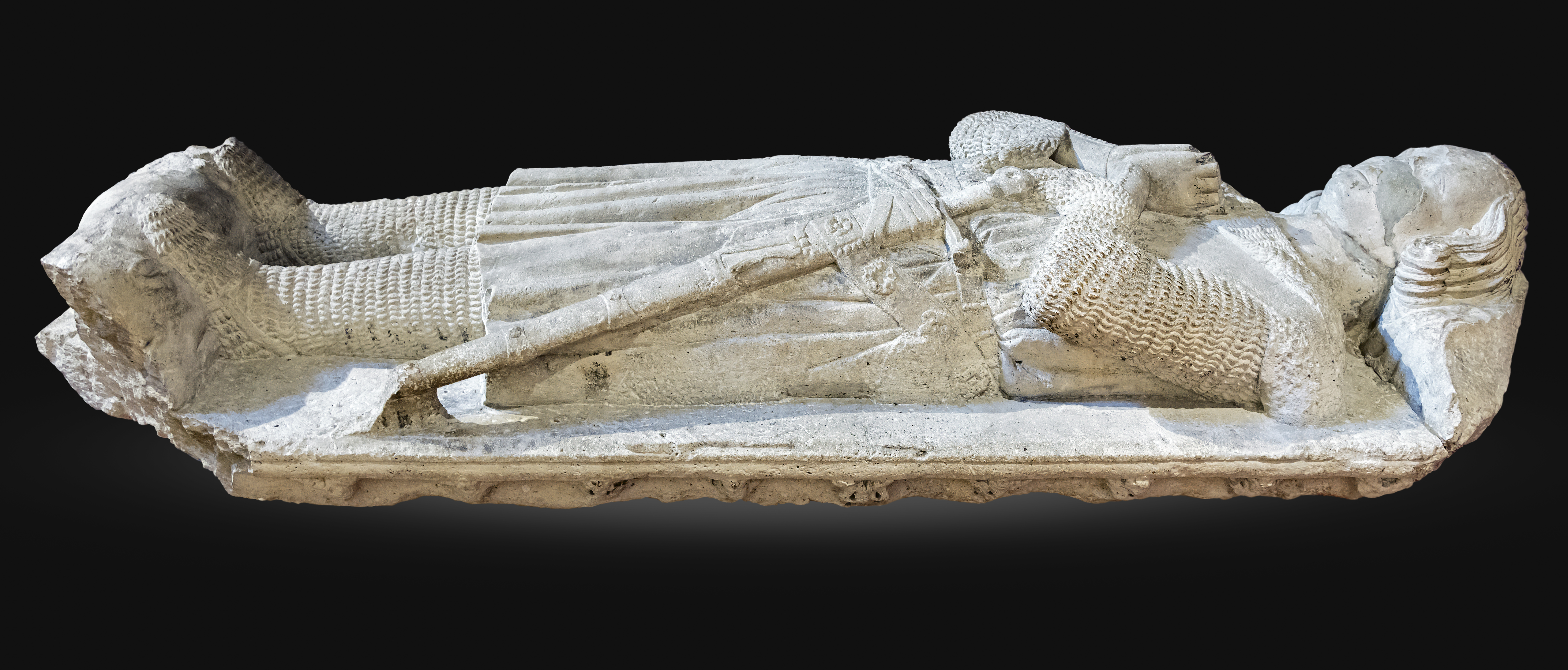 Recumbent effigy of Bernard VI (1241-1295) or Bernard VII (1295-1312), Count of Comminges.